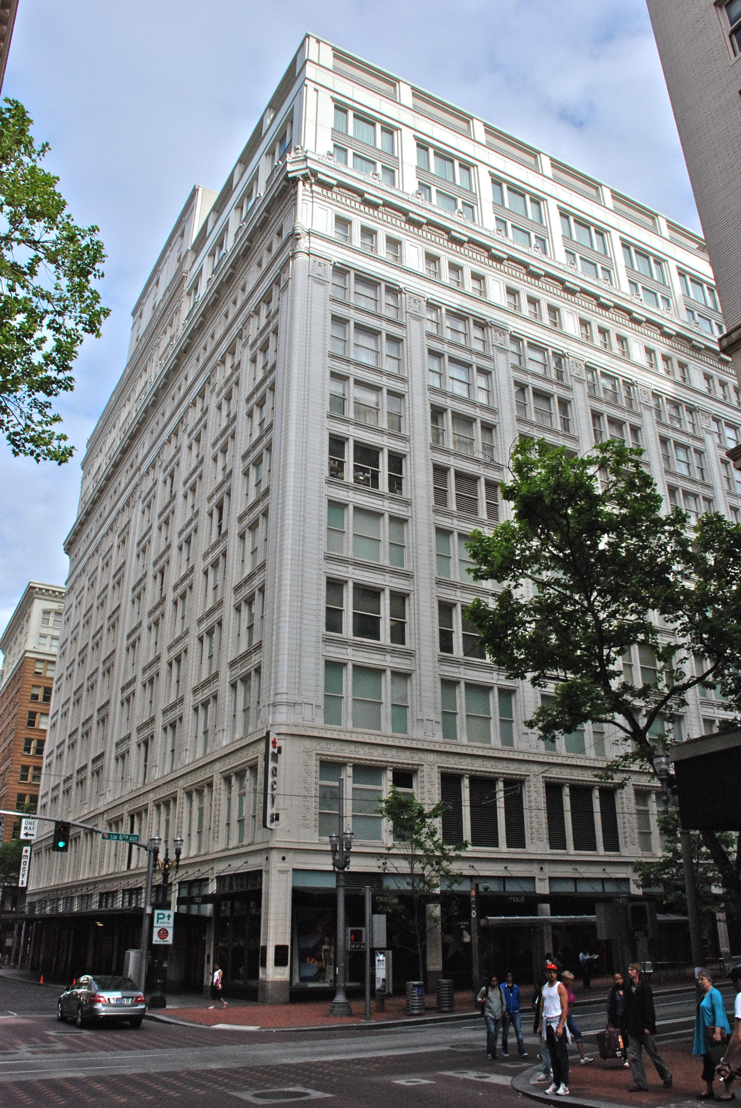 The historic Meier & Frank Building (now a Macy's), in downtown Portland, Oregon, is listed on the U.S. National Register of Historic Places. This view from Alder Street – and across the intersection of 6th & Alder – shows the building's north and west façades.